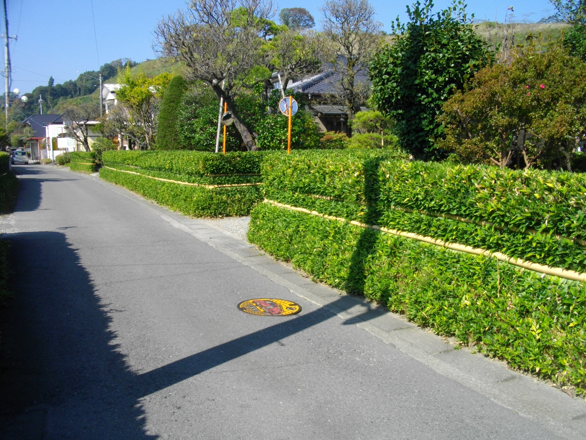 Kanchikugakoi Hedge